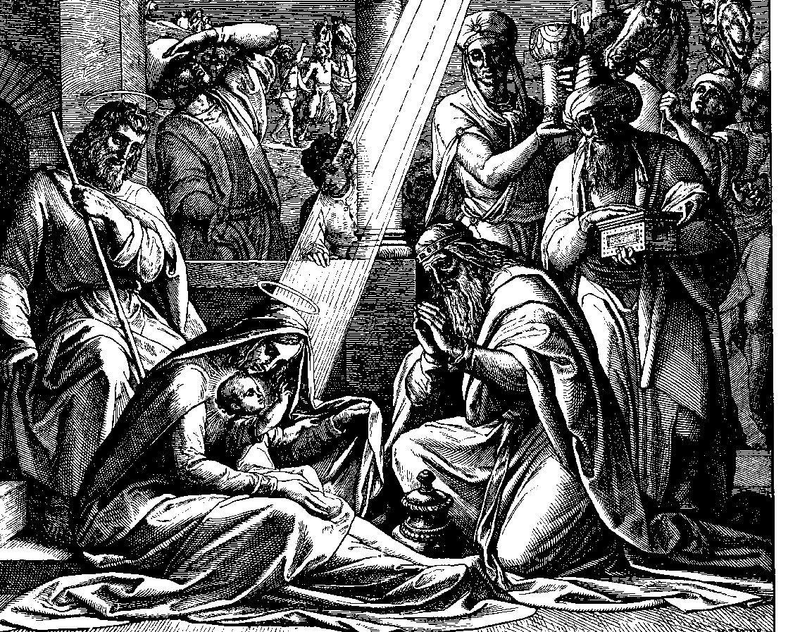 Woodcut for "Die Bibel in Bildern", 1860.